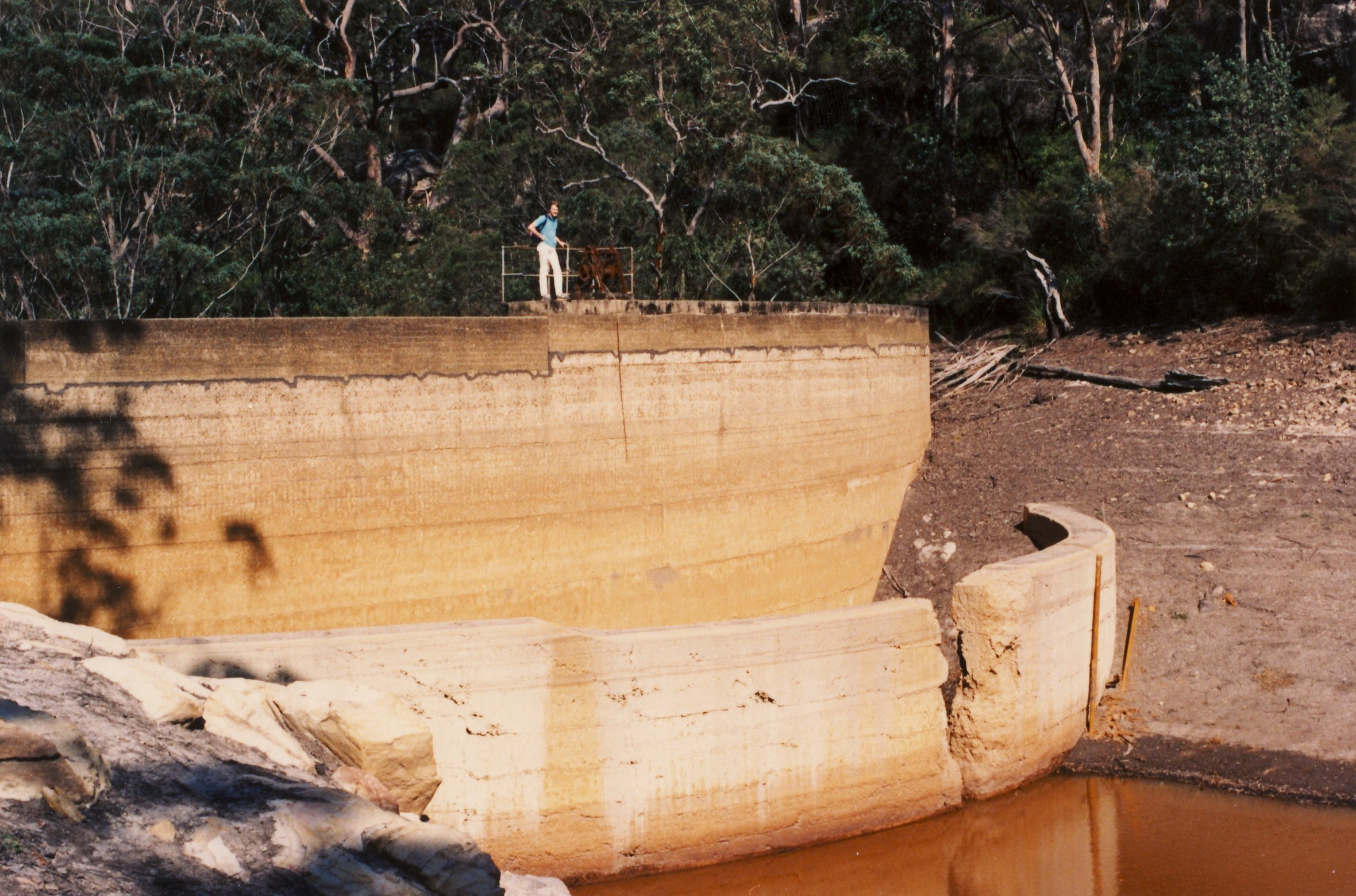 Cascade Creek dam, New South Wales. The lower inner wall was that of the original dam